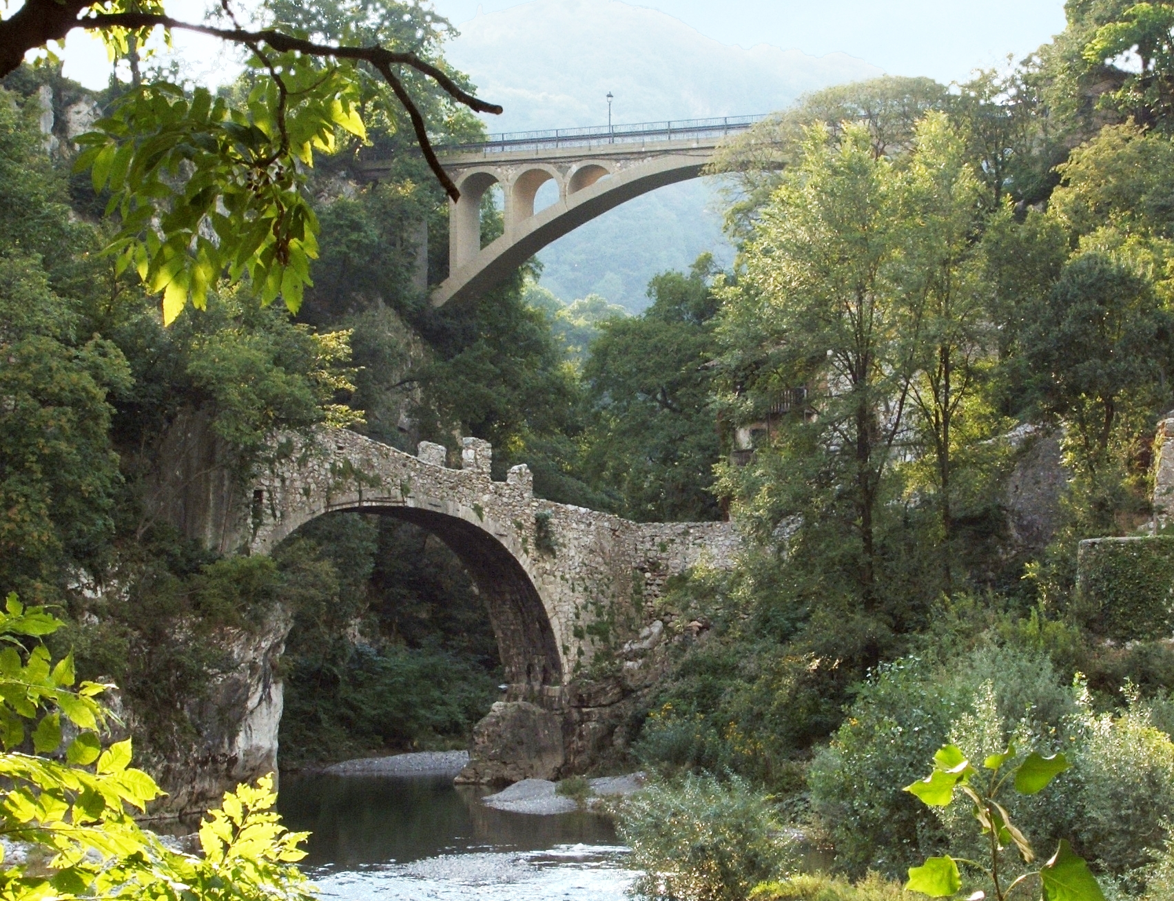 Ubiale Clanezzo, Bergamo, Italy - Bridges on Imagna river